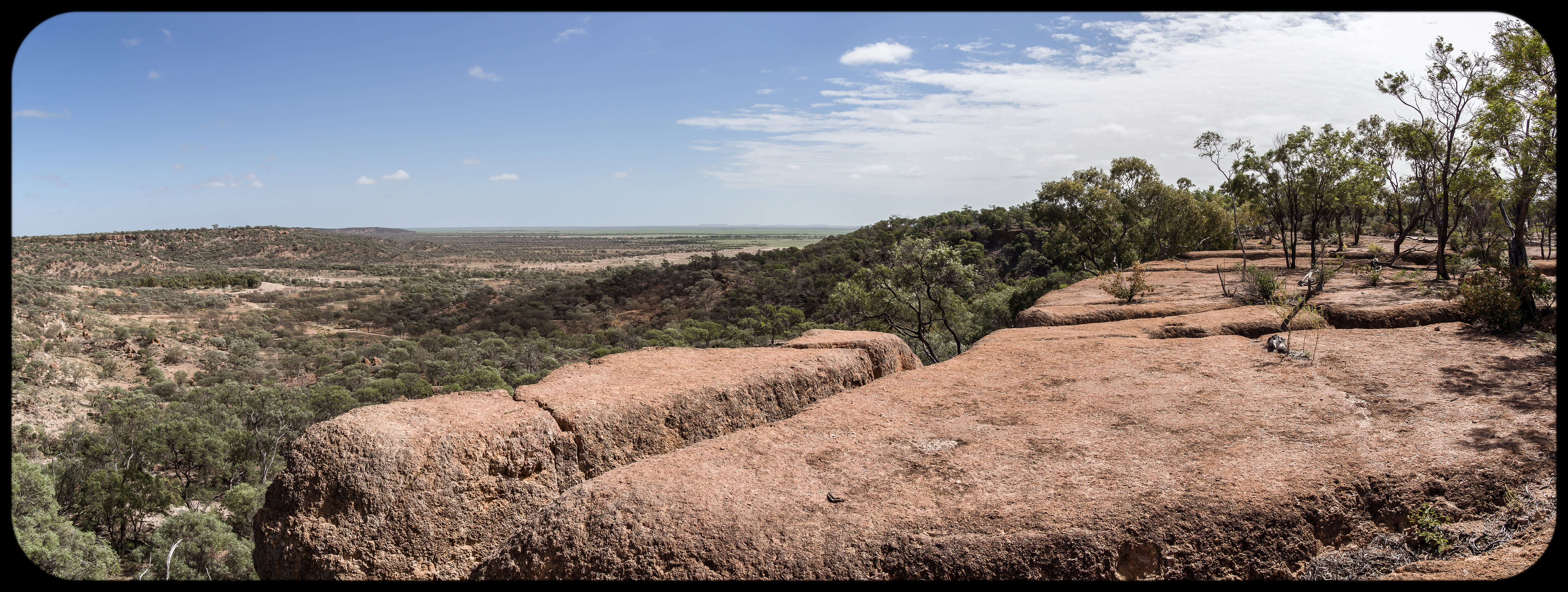 The Jump-Up near Winton, Queensland, Australia - 16th of August, 2016